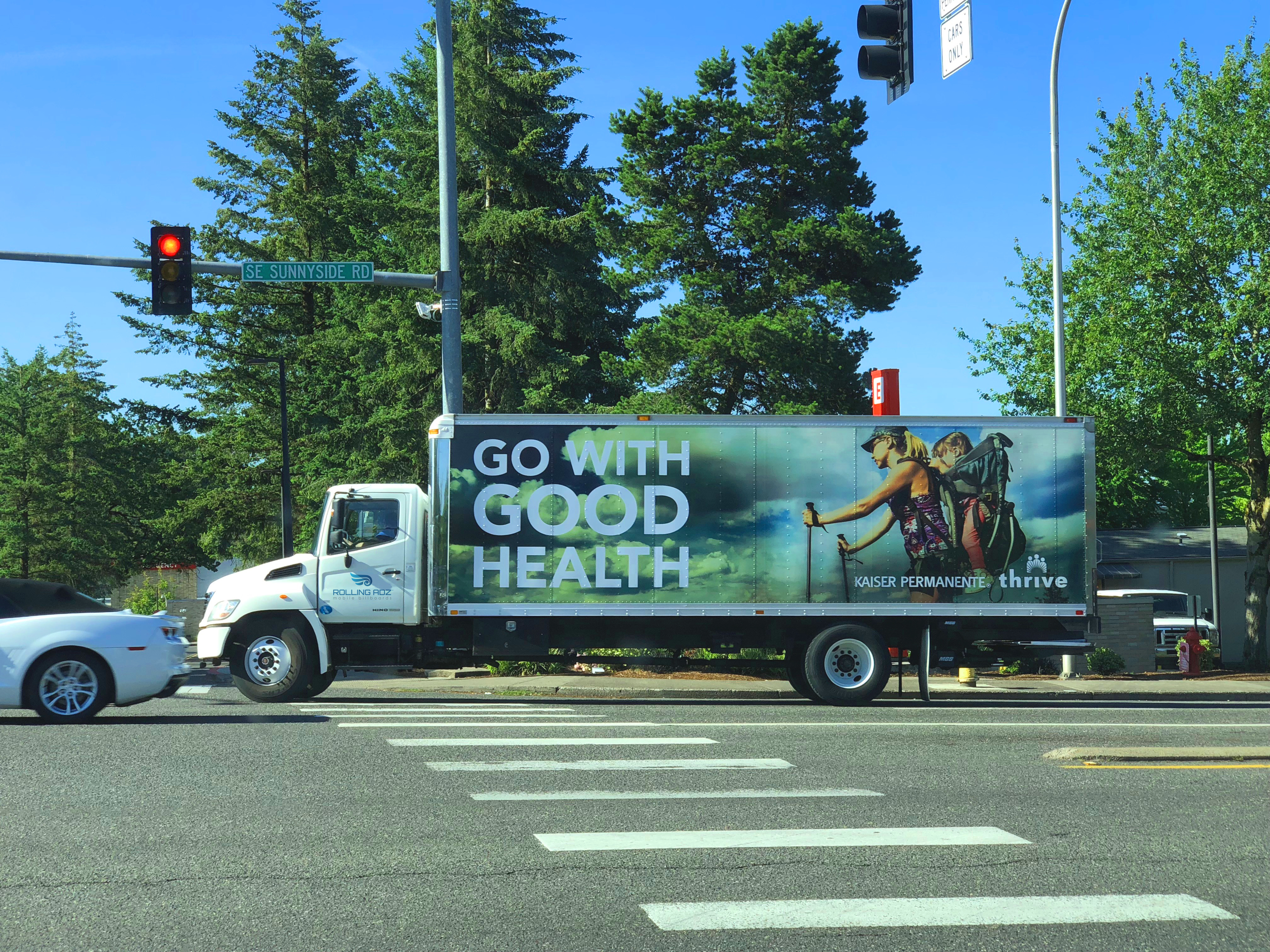 A printed Mobile Billboard Advertisement